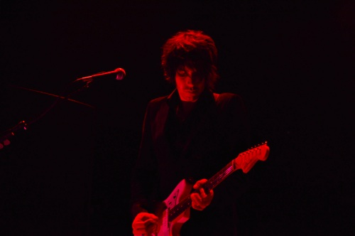 Rich Good (of The Psychedelic Furs) - Live in Concert (photo by Scott Dudelson)